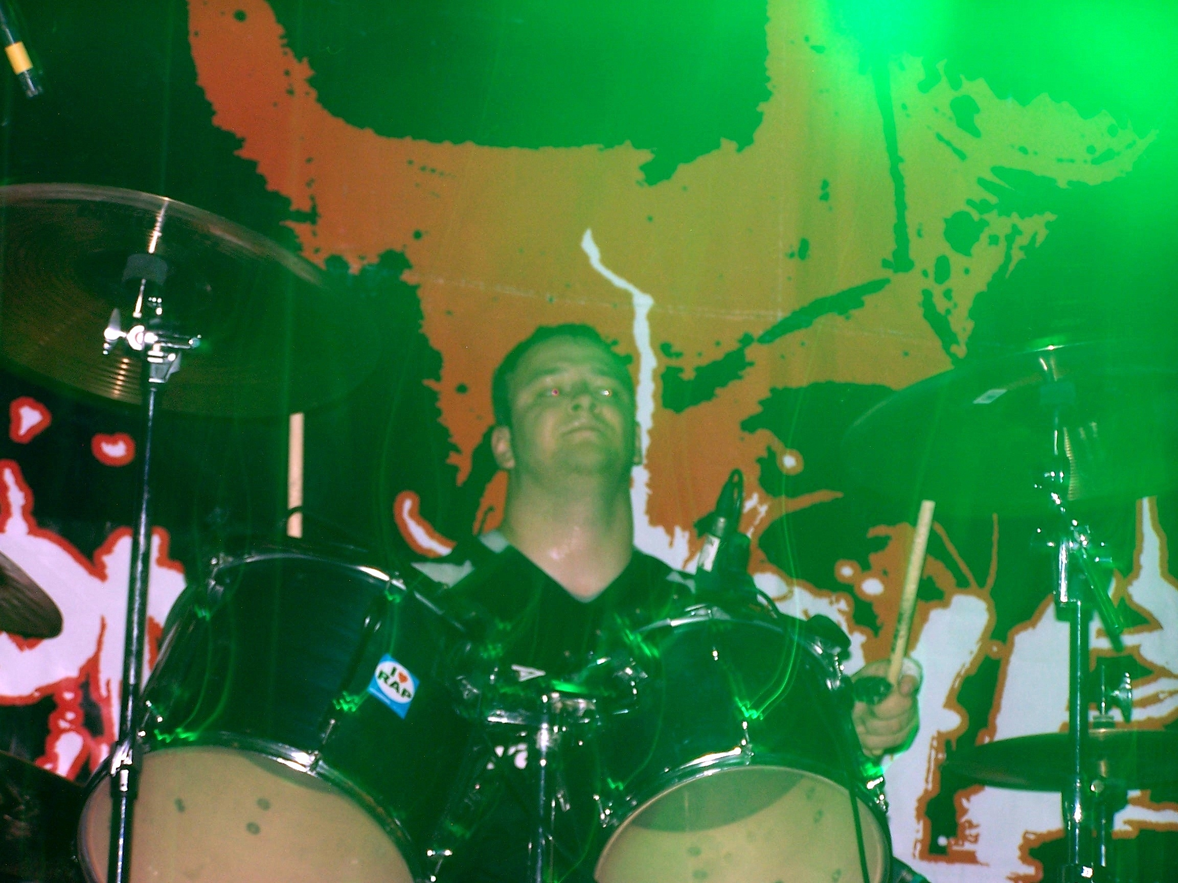 Matthias Voigt of Heaven Shall Burn at Hell On Earth 2006 in München.